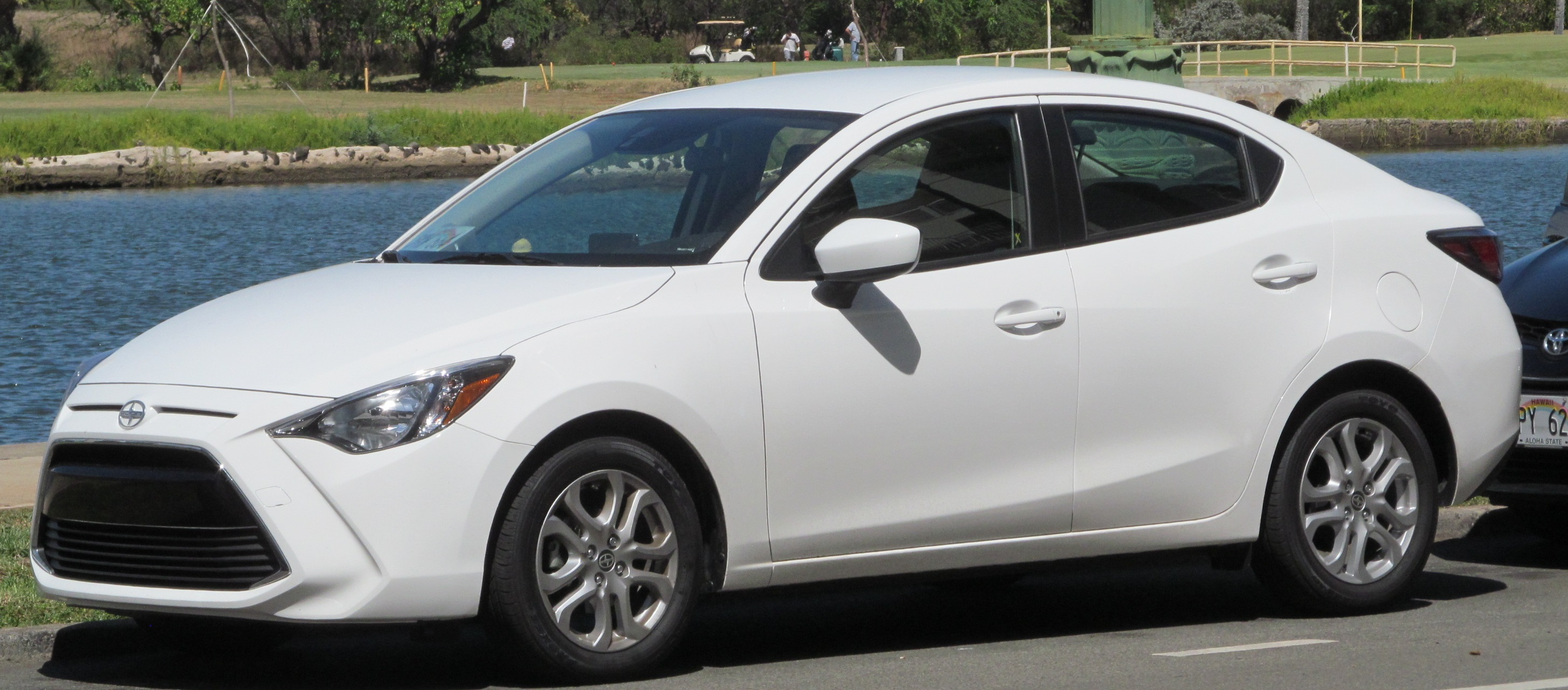 2016 model year Scion iA sedan, seen in Honolulu, Hawaii.